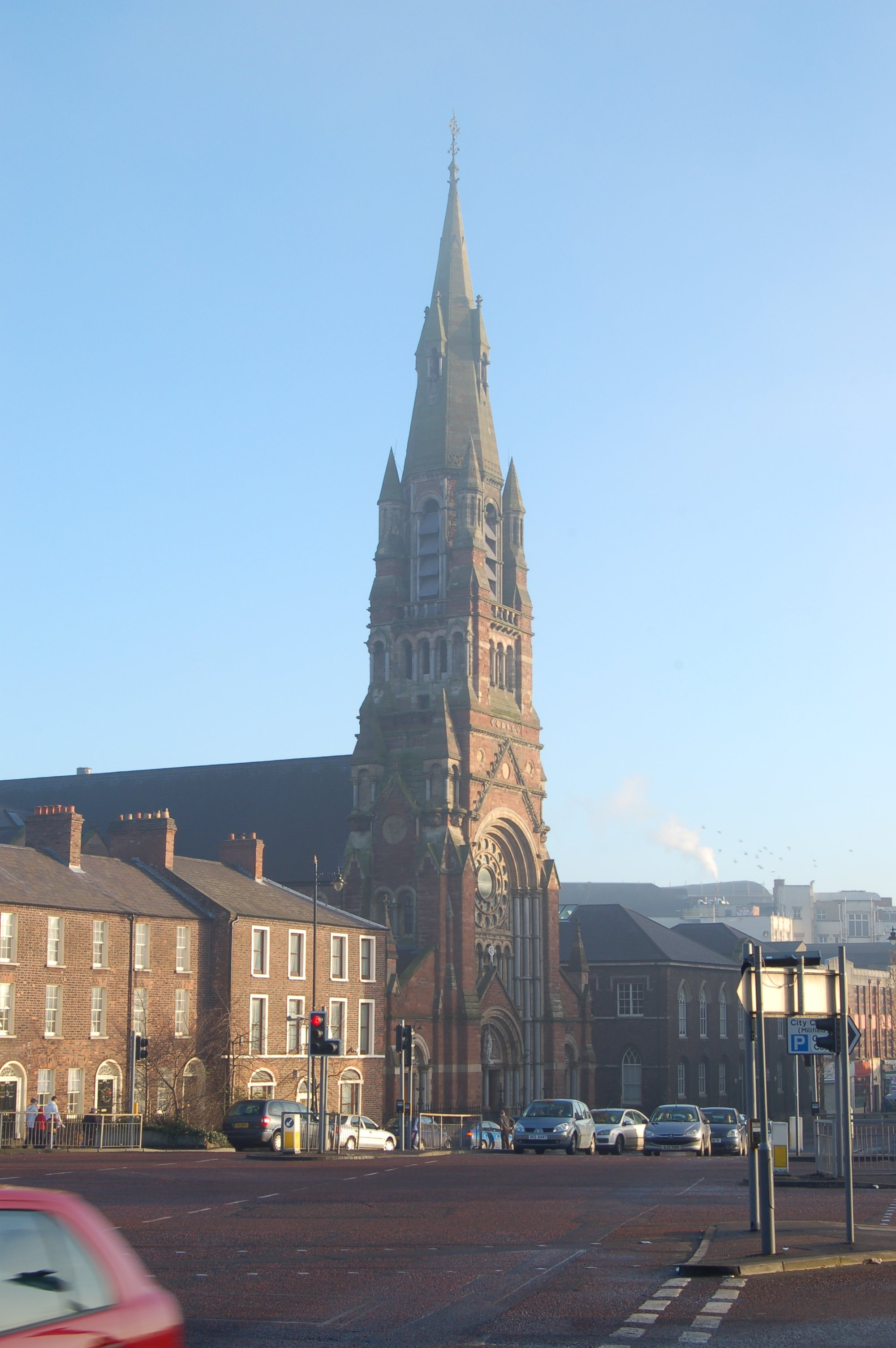 St. Patrick's Catholic Church, Donegall Street, Belfast